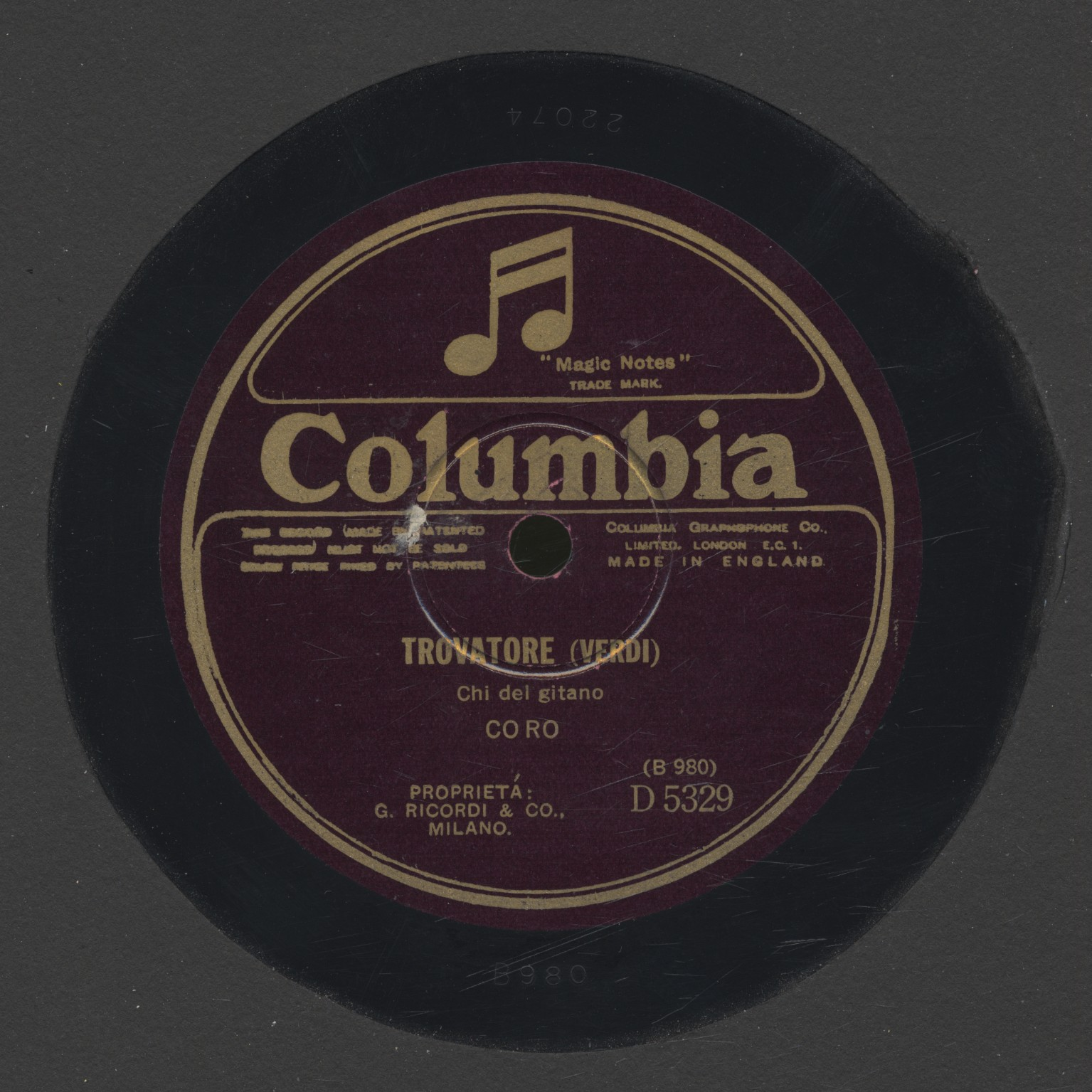 Image of a 78rpm of an aria from Giuseppe Verdi's Il trovatore, recorded by Columbia Records